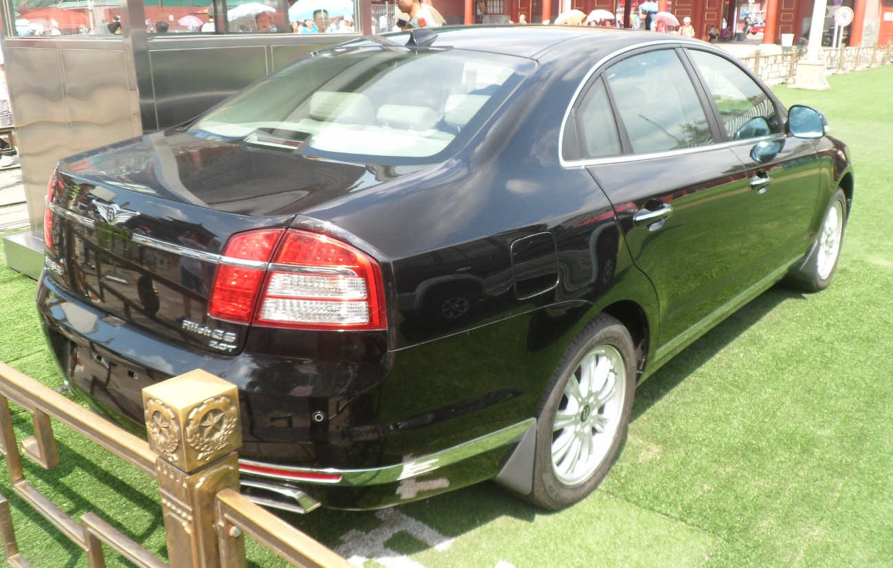 Riich G6 photographed in Beijing, China.